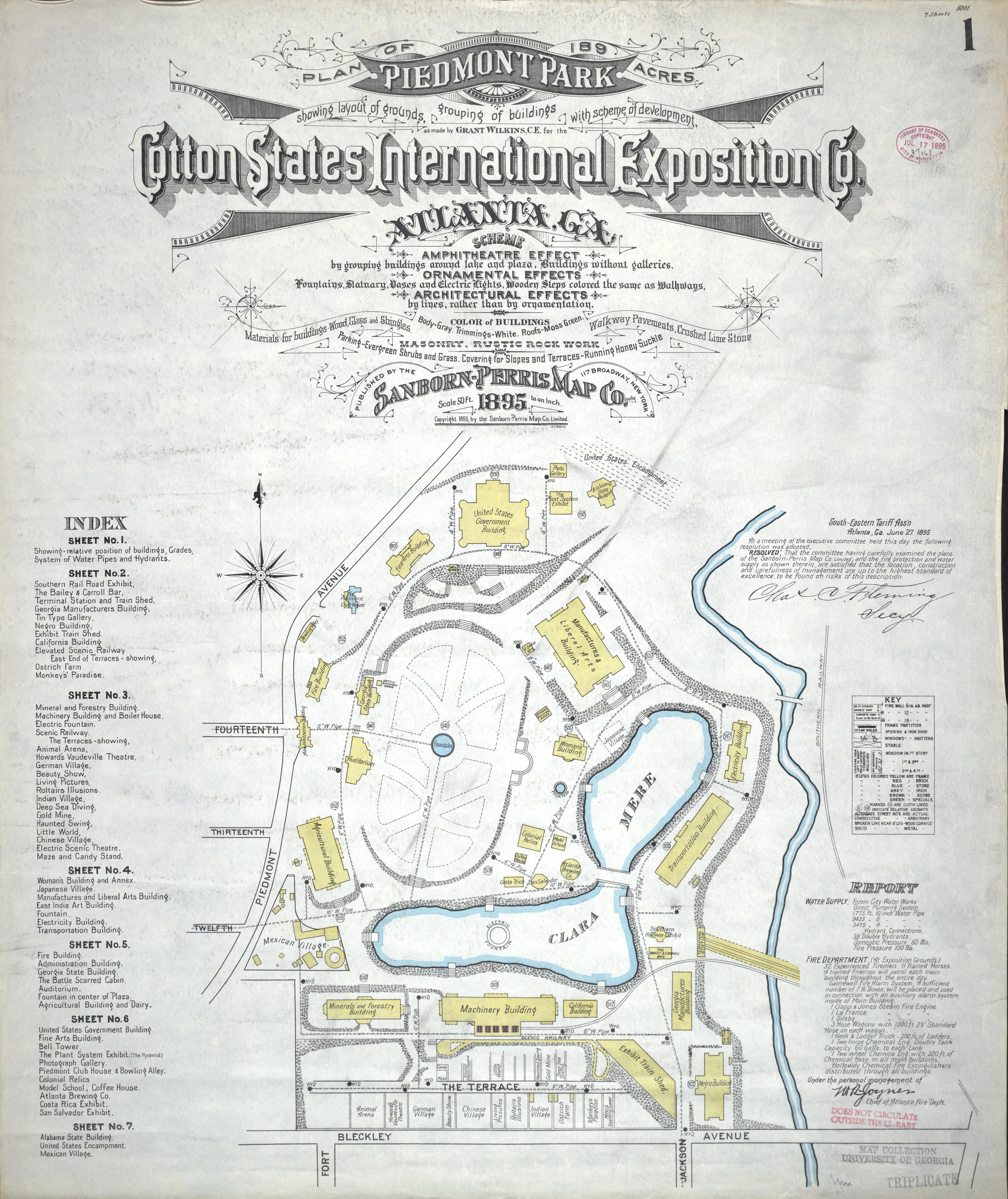 Sanborn-Perris Map showing the layout of grounds, grouping of buildings with scheme of development of Piedmont Park for the 1895 Cotton States And International Exposition, Atlanta, GA. The map was lithographically printed and hand colored with the aid of wax paper stencils.